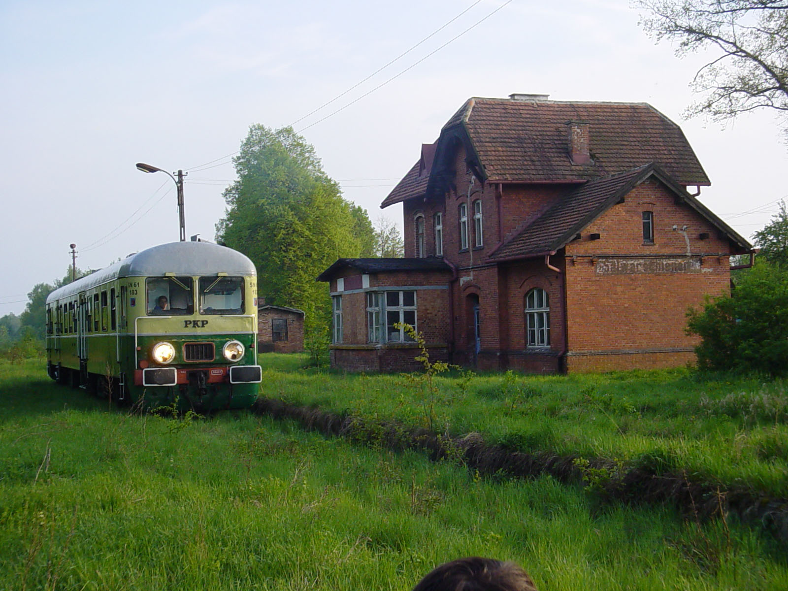 Diesel railcar SN61-183 in Kanie Iławeckie, Poland. An old German name (Salwarschienen) is still visible on the building. The line (Czerwonka - Lidzbark Warmiński - Sągnity) has been out of use since early 1990s. In 2003, it was passed by this charter train during a railfan tour along disused tracks of Warmia and Masuria.